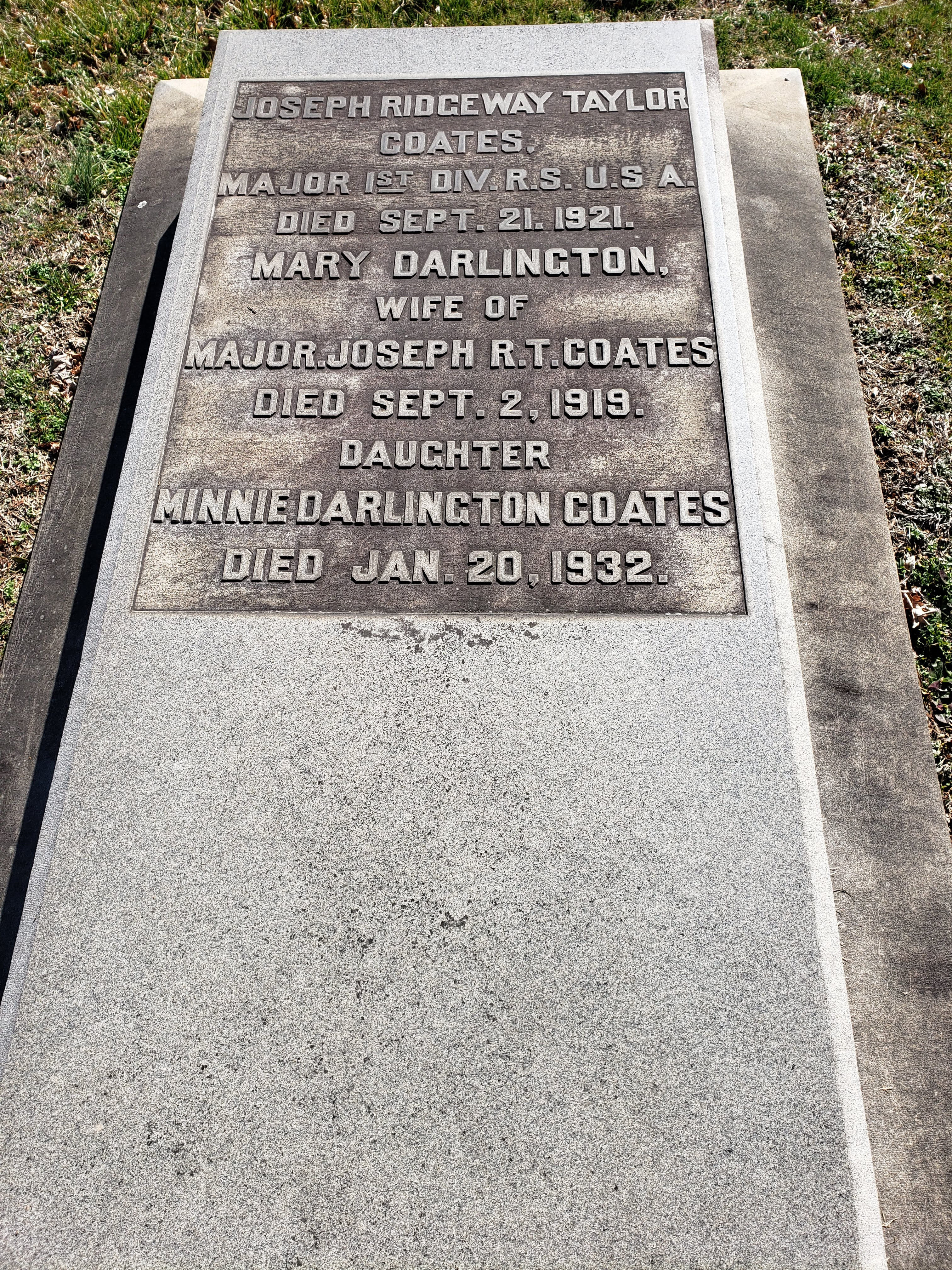 Joseph R.T. Coates gravestone in Chester Rural Cemetery. Photo taken March 2020.